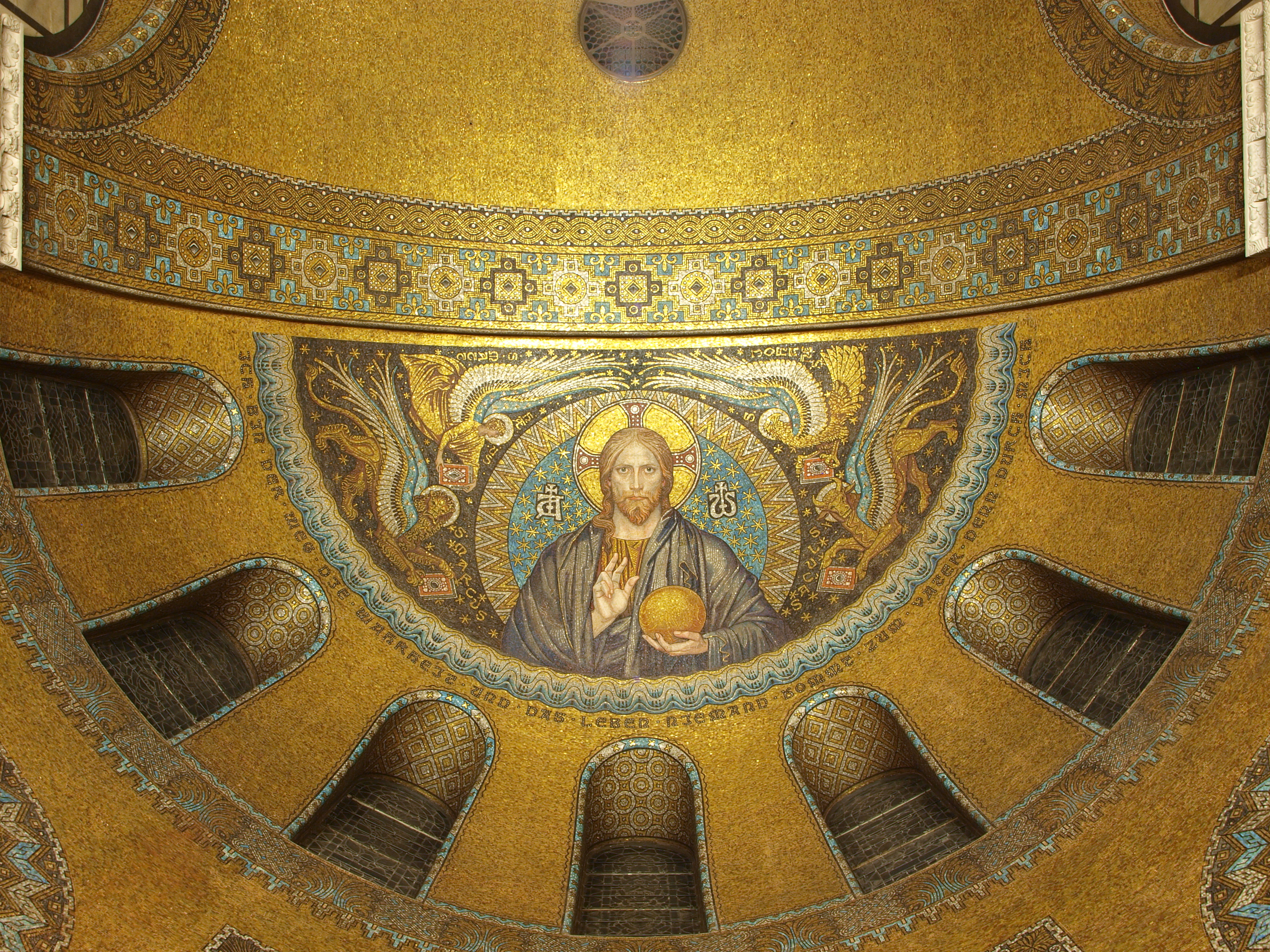 Church of the Redeemer, Bad Homburg, apsis mosaic